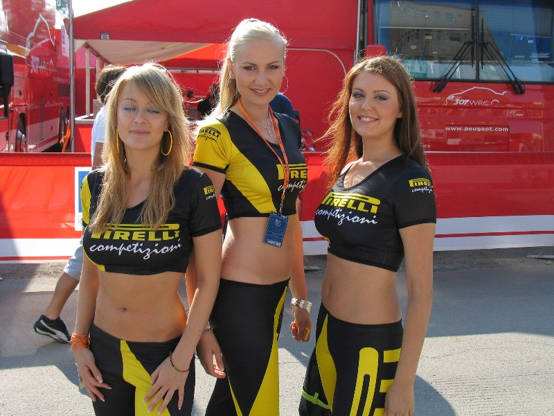 Pirelli girls at the 2004 Rally Finland.